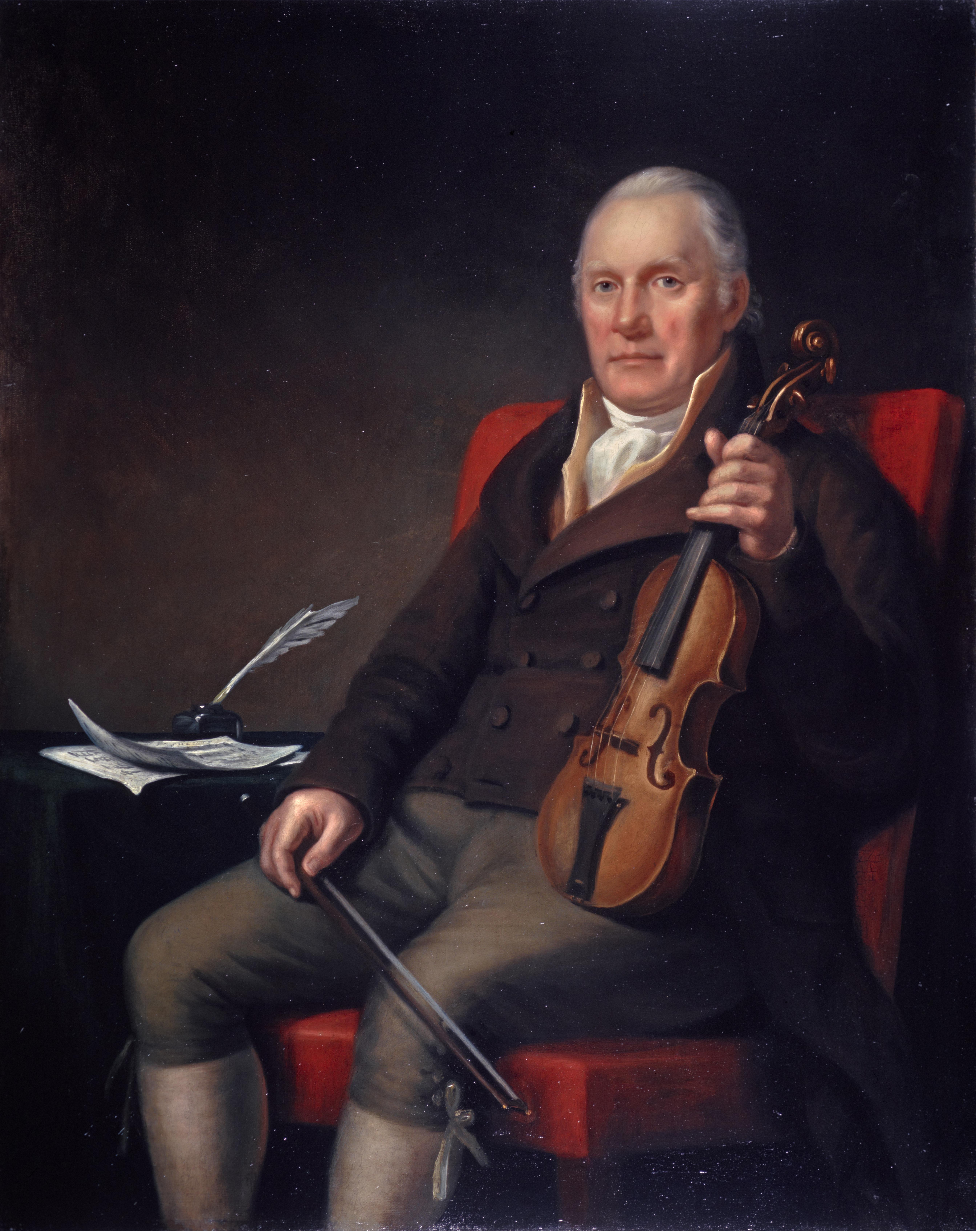 William Marshall (1748-1833), Violinist and composer